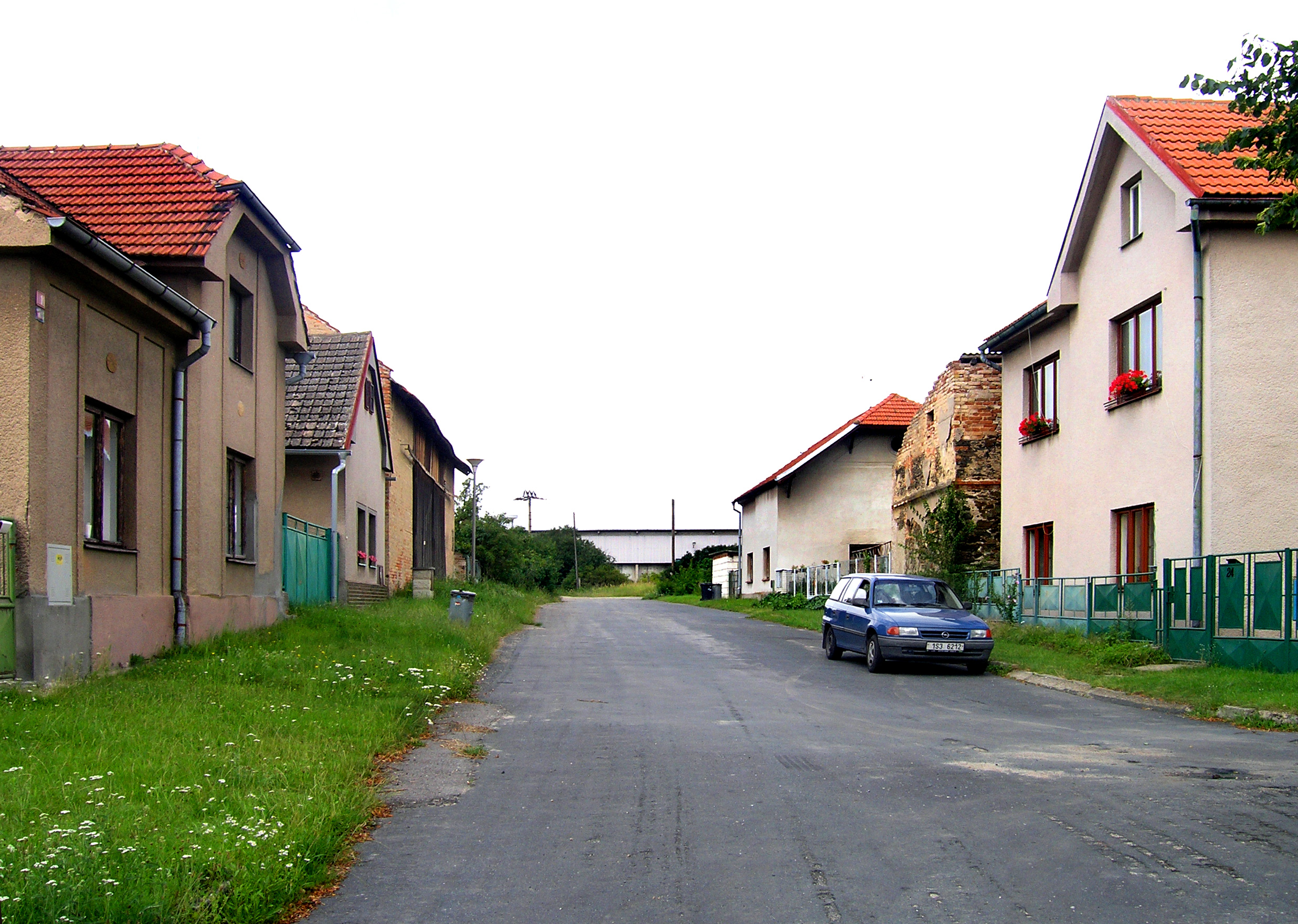 Božec village, Part of Krakovany, Czech Republic